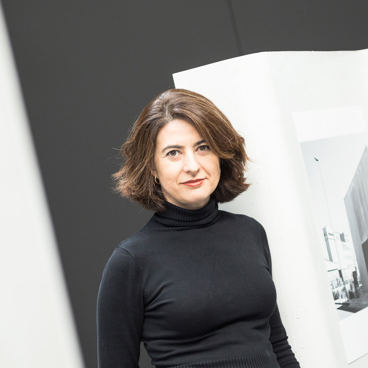 Portrait of Elisa Valero. Elisa Valero Exhibition at Cement Rezola Museum.